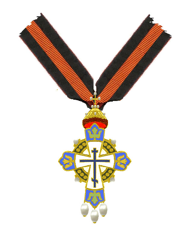 Cross for Clerics 300 years of the Romanov Dynasty driehonderdste verjaardag van de Romanov-dynastie, 24 januari 1913